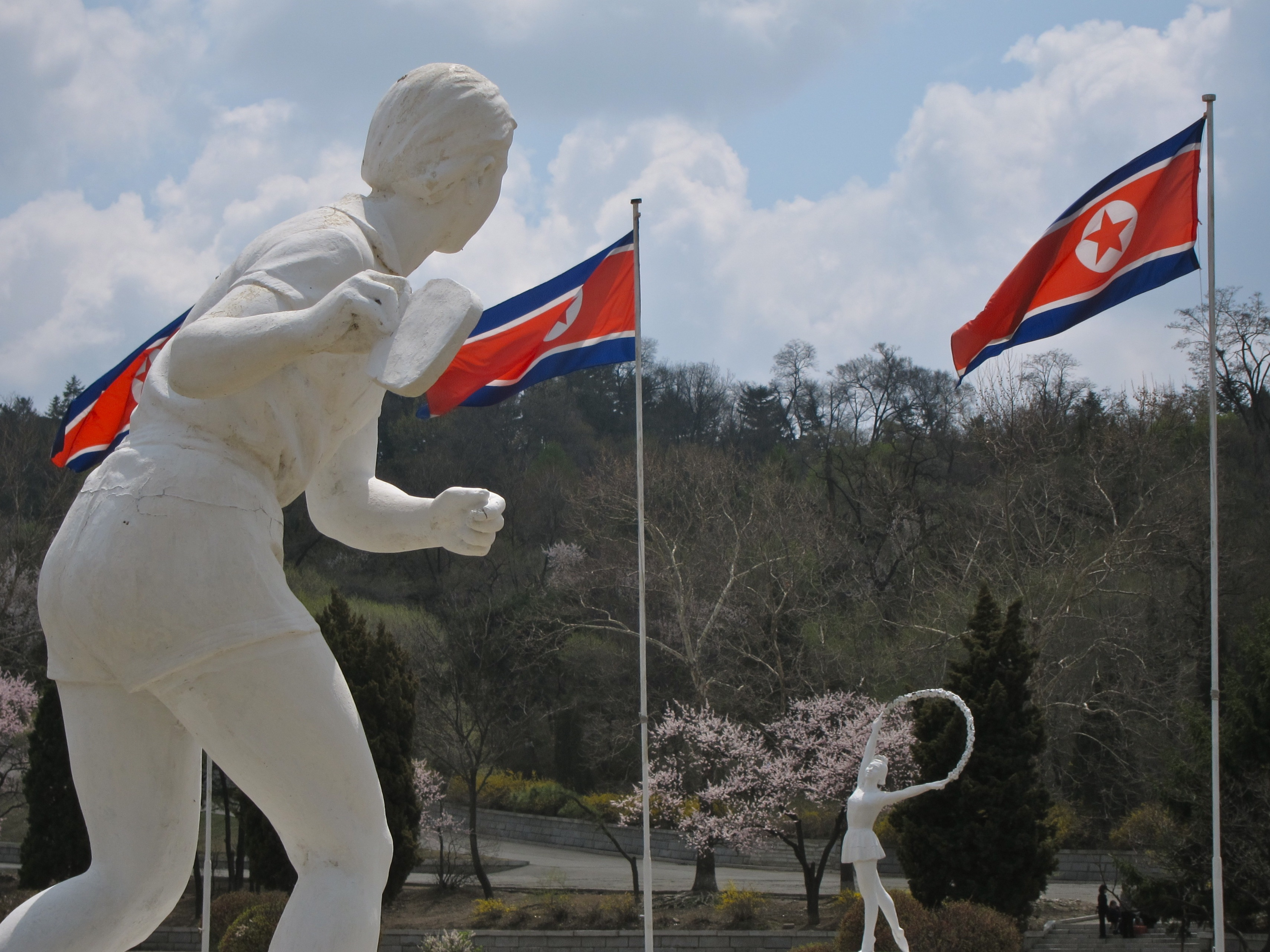 Sculpture Entrance to the Kim Il Sung Stadium Pyongyang, DPRK (North Korea)